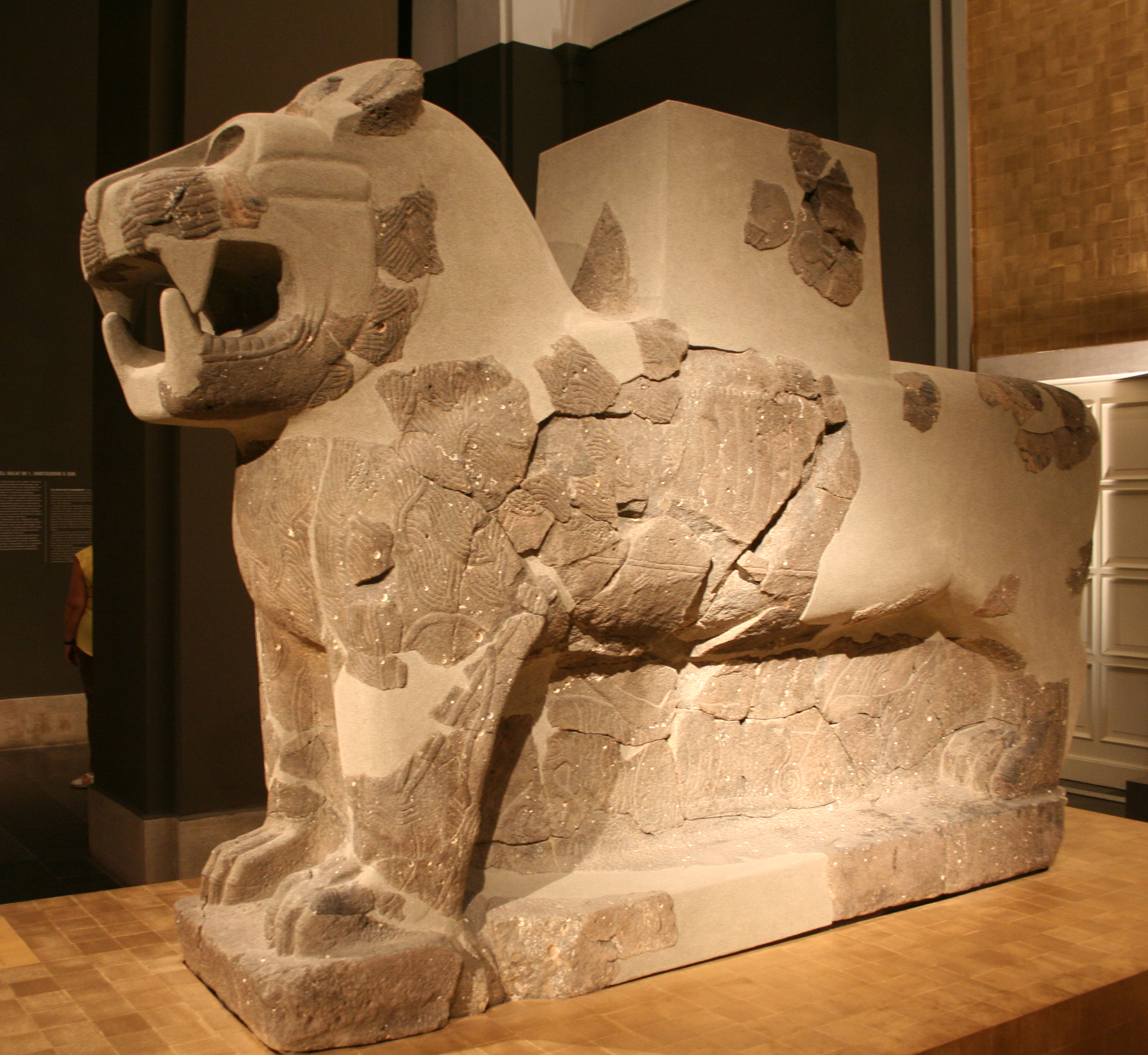 Exhibition "Die geretteten Götter aus dem Palast vom Tell Halaf" (The rescued gods from the palace of Tell Halaf), Pergamon Museum, Berlin